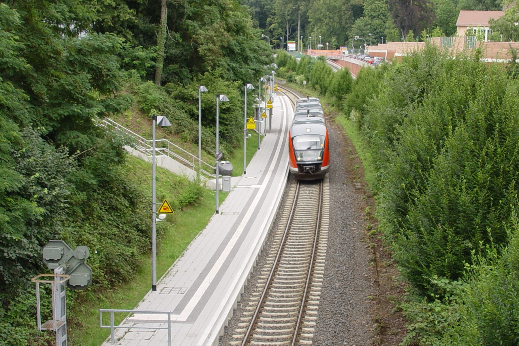 Train stop Aschaffenburg Hochschule